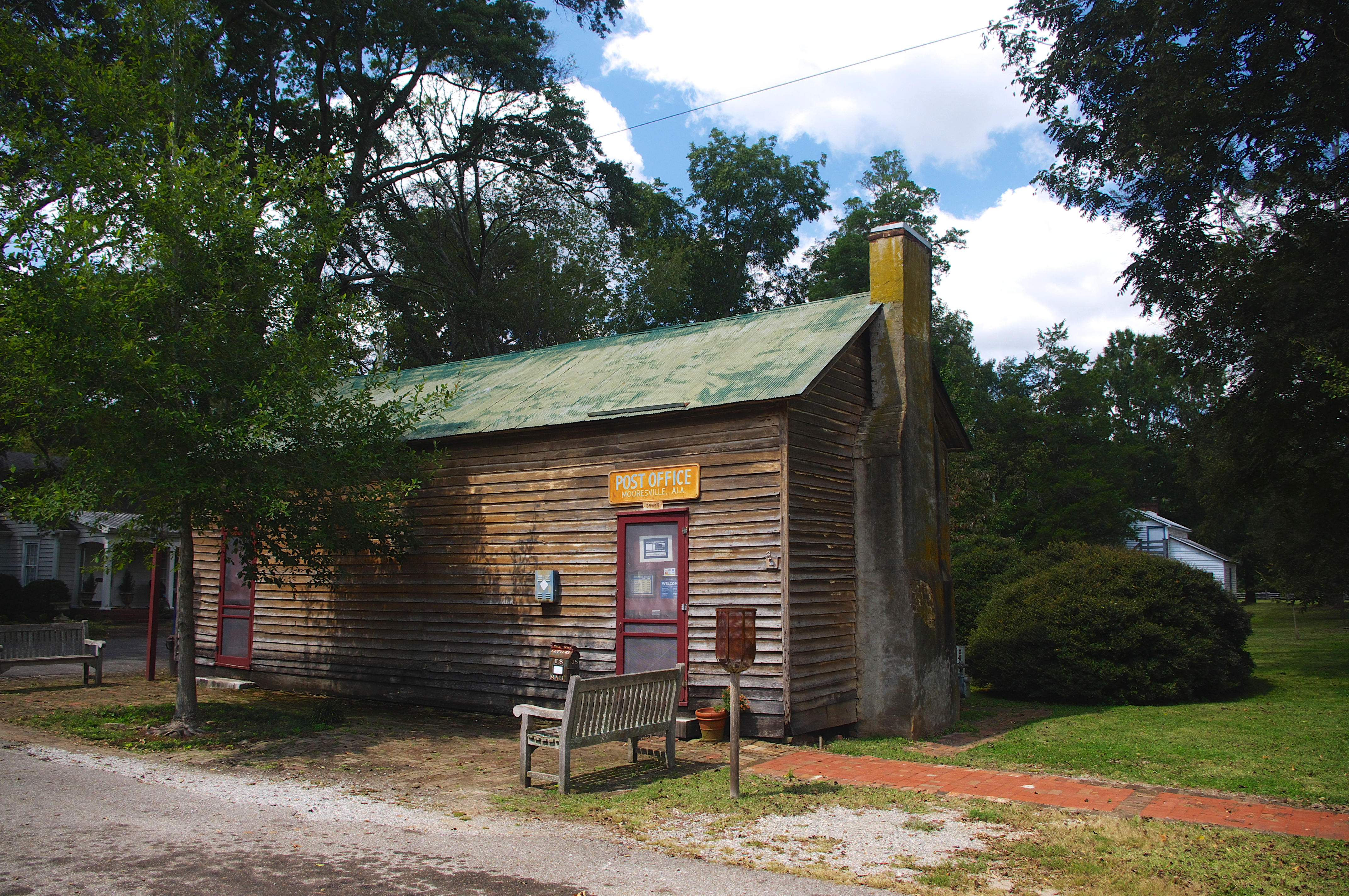 Post office in Mooresville, Alabama, United States. This building is listed on the National Register of Historic Places as a contributing property in the Mooresville Historic District.